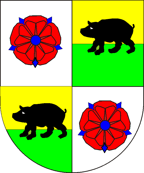 coats of arms of the county of Eberstein